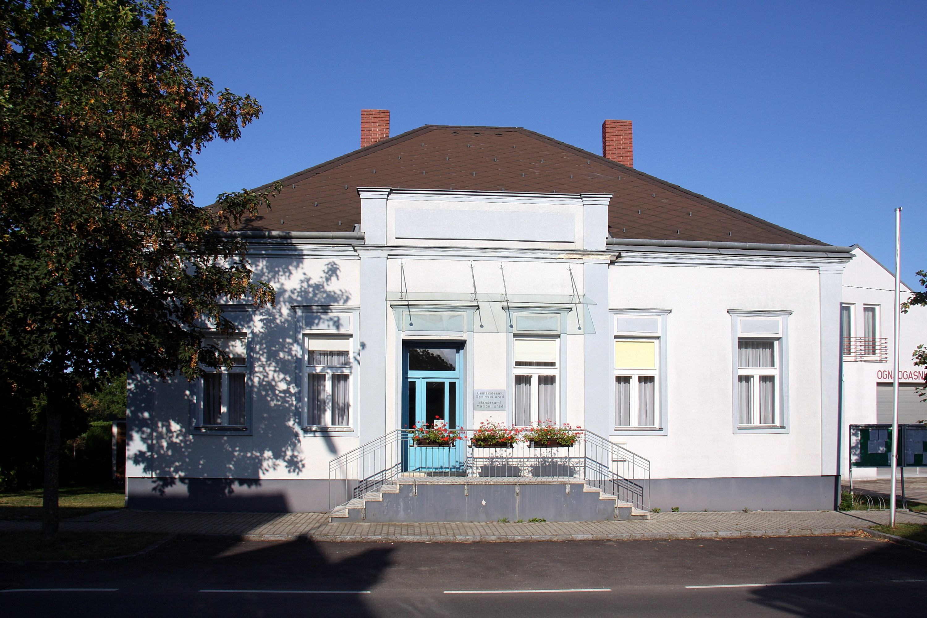 Großwarasdorf - municipal office Großwarasdorf